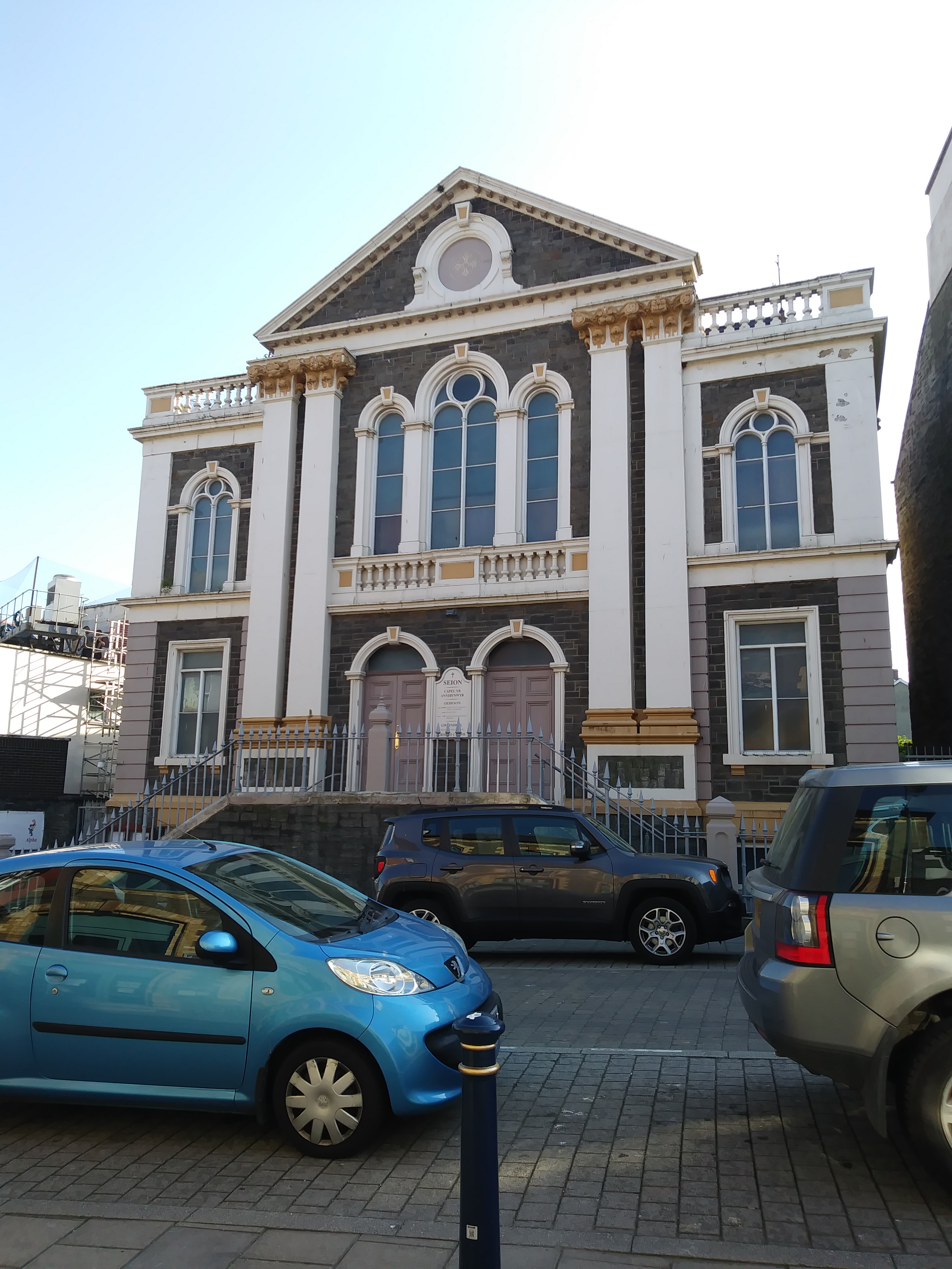 Capel Seion, Baker St, Aberystywth 2